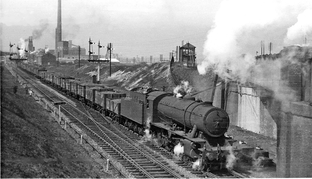 Eastbound coal train approaching Mexborough West Junction. View NW, towards Wath, Barnsley, Penistone and Manchester on the ex-Great Central line from Mexborough, Doncaster and Sheffield. The photograph shows how sixty years ago this area was intensely industrialised, with numerous large and thriving collieries (Manvers Main is in the left background) and there was a complex of railway lines busy with trains of coal and industrial products. This train (hauled by ex-War Department 2-8-0 No. 90119) is coming away from Wath Yard and is about to pass under the four-track main ex-Midland line at Wath Road Junction, where the line to York leaves the line to Leeds. This was an ideal spot for a 'train-watcher' - but damned cold that day.